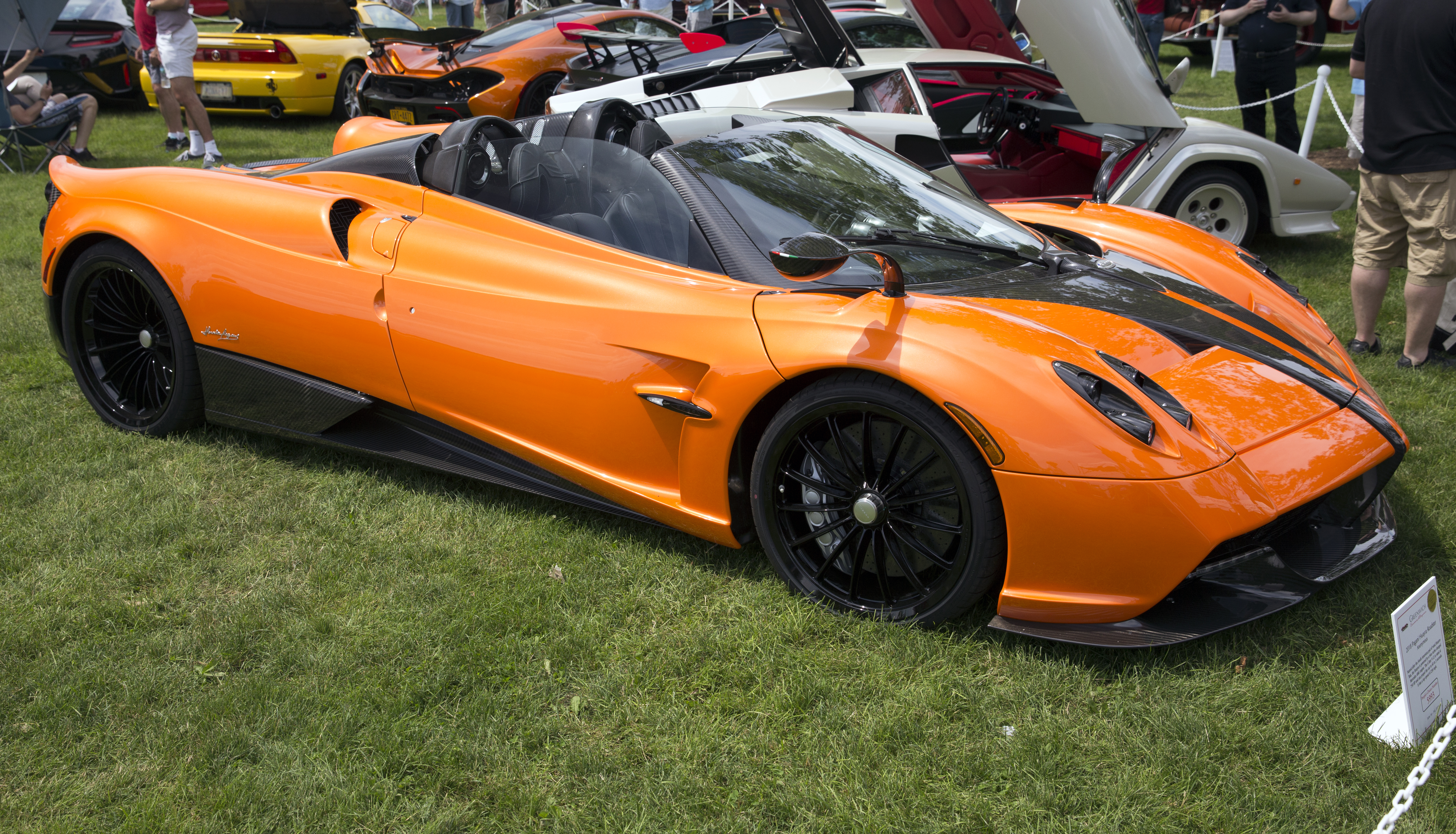 2018 Pagani Huayra Roadster at the 2018 Greenwich Concours d'Elegance. Anonymous owner.